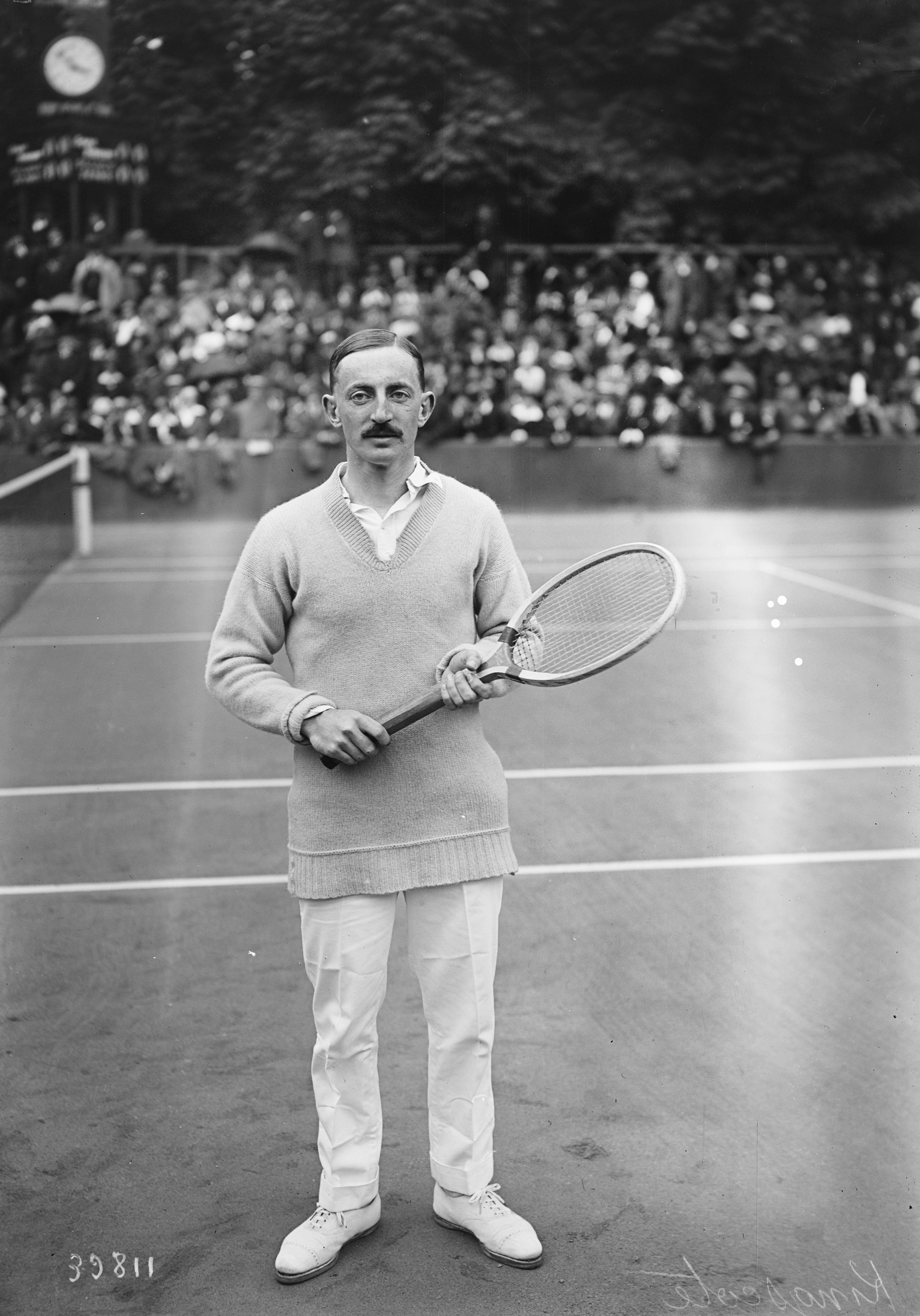 English tennis player Algernon Kingscote at the 1914 World Hard Court Championships in Paris.